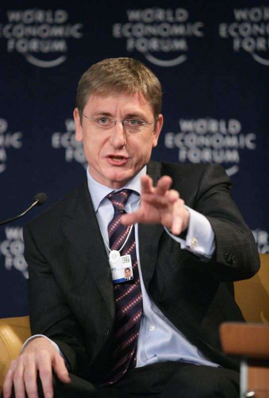 DAVOS/SWITZERLAND, 25JAN07 - Ferenc Gyurcsany, Prime Minister of Hungary captured during the session 'Ensuring Future European Growth' at the Annual Meeting 2007 of the World Economic Forum in Davos, Switzerland, January 25, 2007.